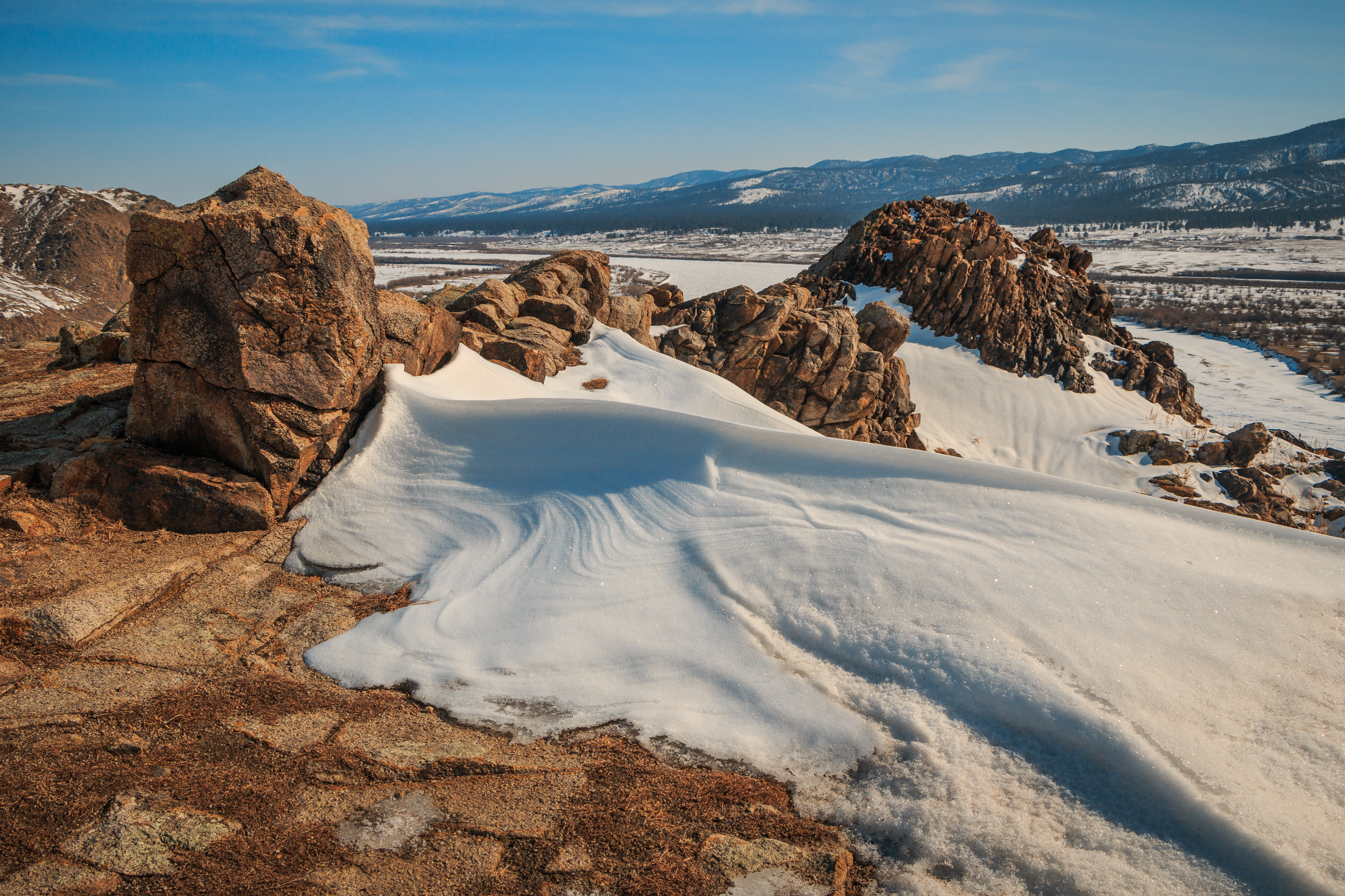 Anglichanka Rock, Republic of Buryatiya, Russia